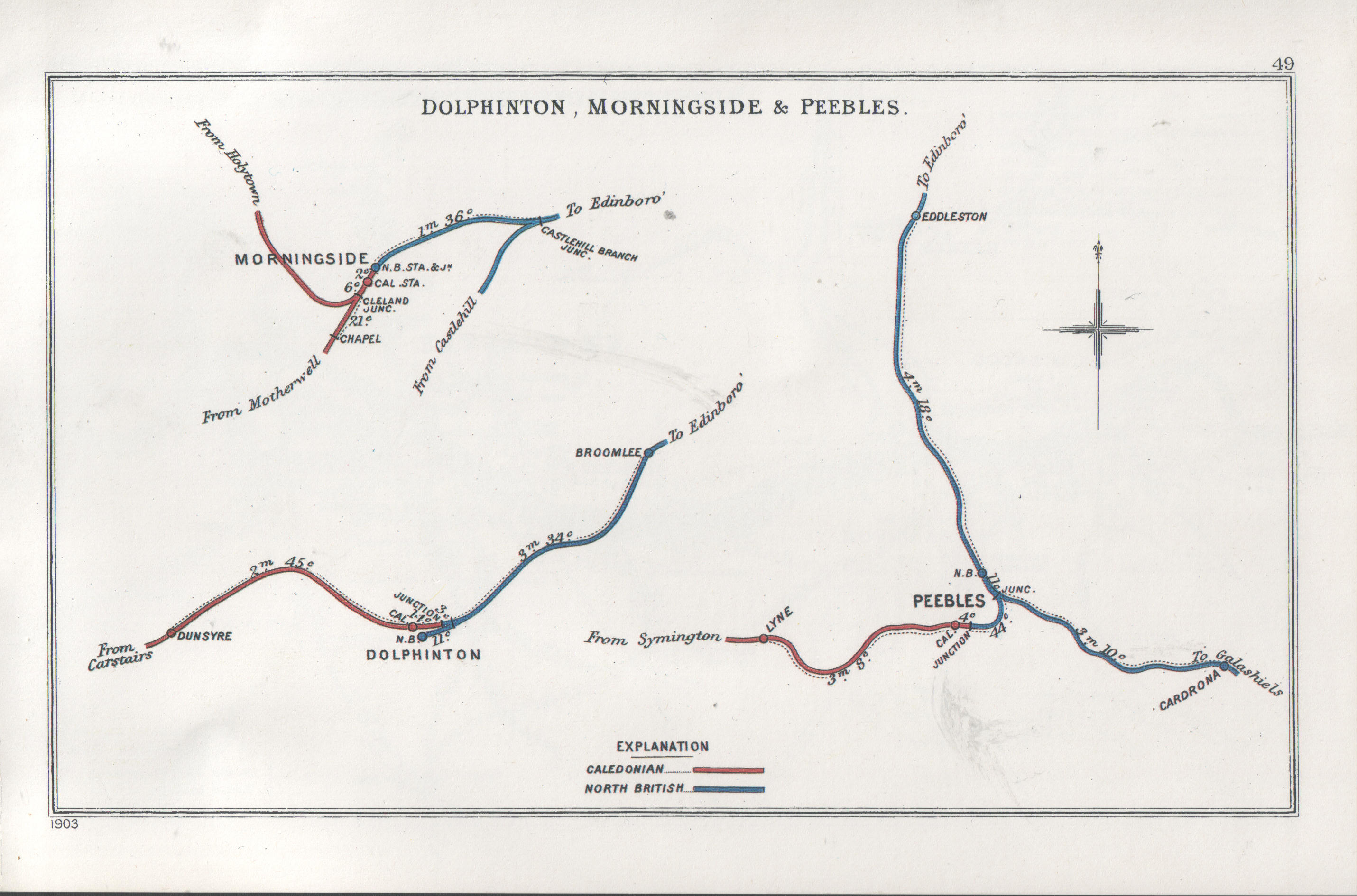 Pre Grouping railway junction around Dolphinton, Morningside & Peebles